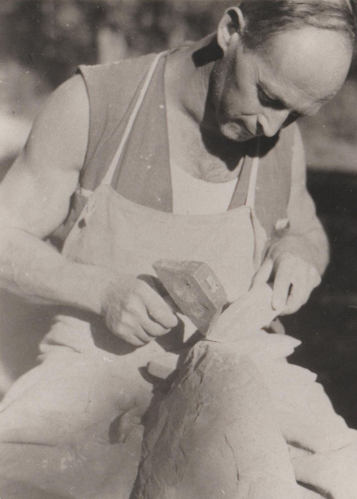 Whetstone-production in the Schwarzachtobel (in Schwarzach, Vorarlberg, Austria). Handy trimming a raw whetstone-boulder by Hubert Hammerer.